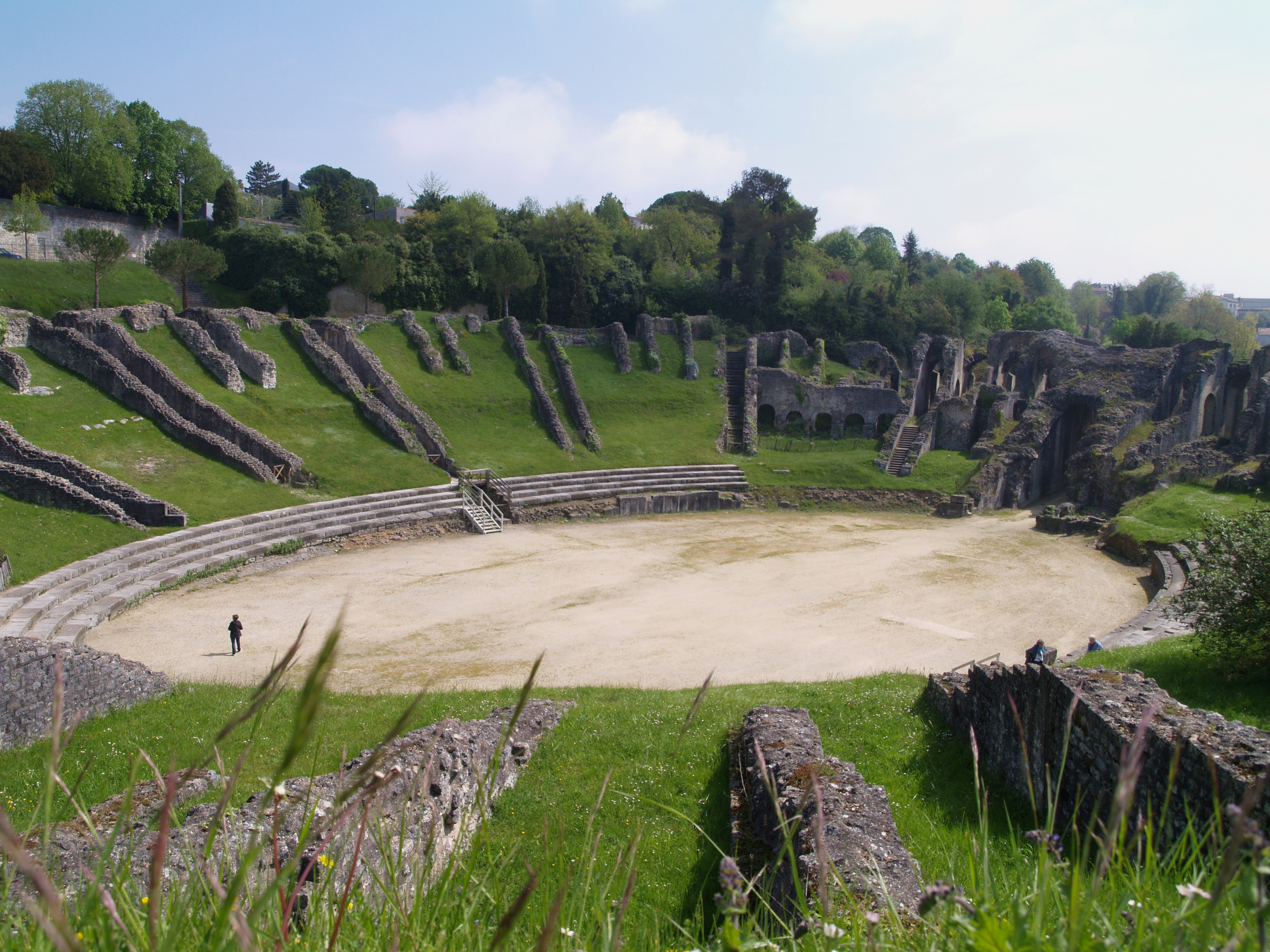 Saintes (Charente-Maritime, France) - The roman amphitheater